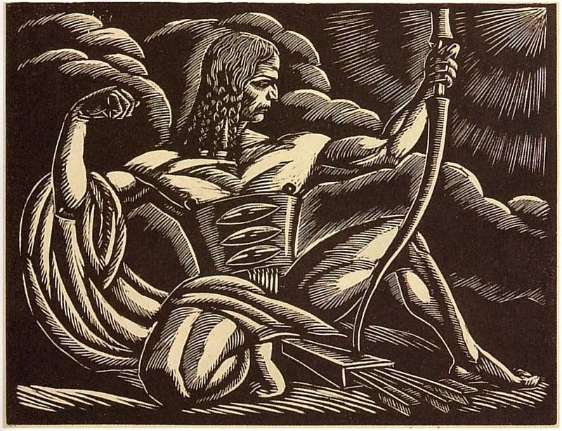 Archer, wood engraving, 16,9 x 22,2 cm, National Museum in Warsaw